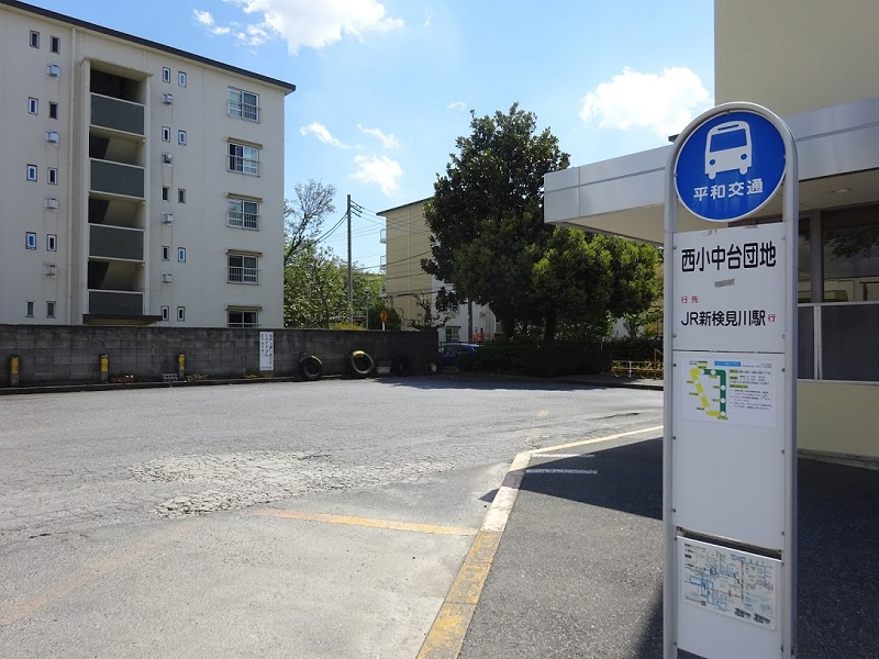 西小中台団地